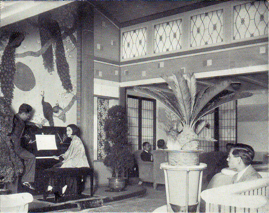 O.S.K. Line "Rio de Janeiro Maru" Lounge 1st Class.